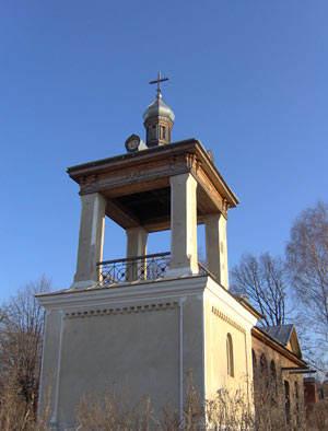 Церковь Покрова Пресвятой Богородицы в усадьбе Любимовка